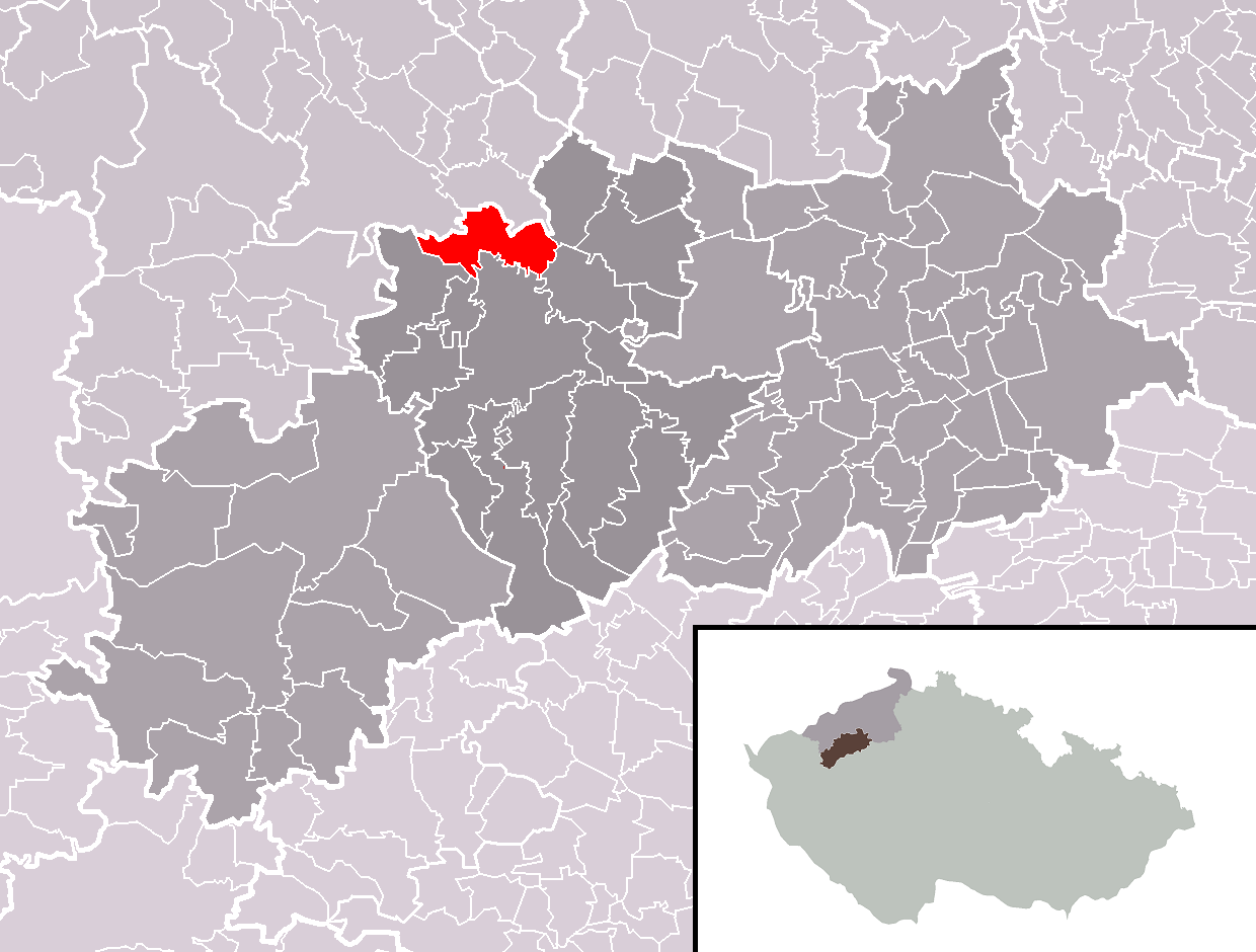 Location of Žiželice municipality within Louny District and administrative area of Žatec as a Municipality with Extended Competence.